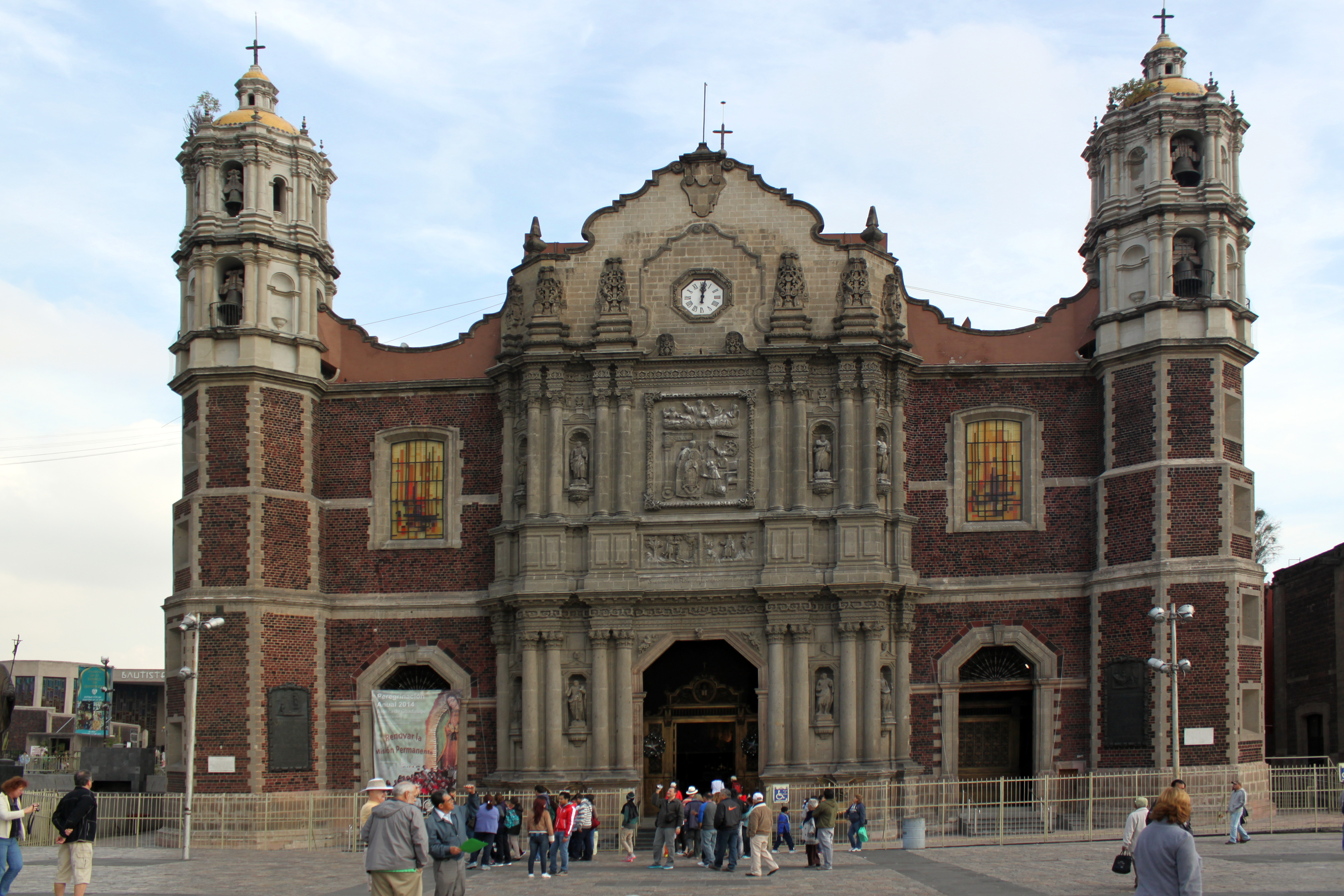 Old Basilica of Our Lady of Guadalupe, Mexico City